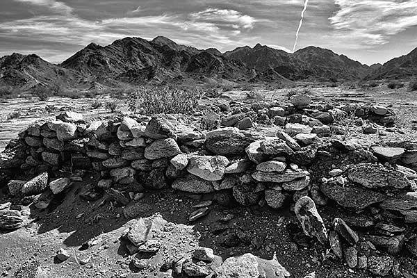 Town Tumco is a 19th century gold mining ghost town located in the Cargo Muchacho Mountains, just east of the Imperial Sand Dunes. Originally known as Hedges in its heyday, about 400 people lived and worked at this remote and desolate canyon in the late 1800’s. By the time the town was renamed Tumco in 1910, the boom and bust of a typical mining town, with all its drama and adventure, was over. Visitors can explore the crumbling foundations of the company saloon. hospital, and cemetery. Golden Cross Mine. Photo courtesy of David Zielinski